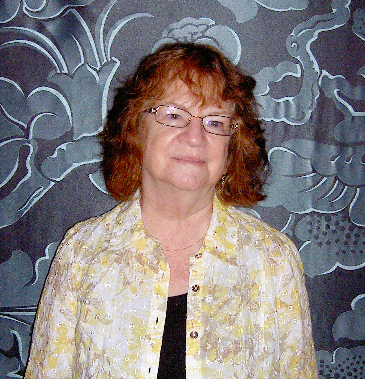 Speculative fiction author Patricia Anne McKillip, photographed at Westercon 64 in the Fairmont San Jose Hotel on Saturday 2 July 2011.